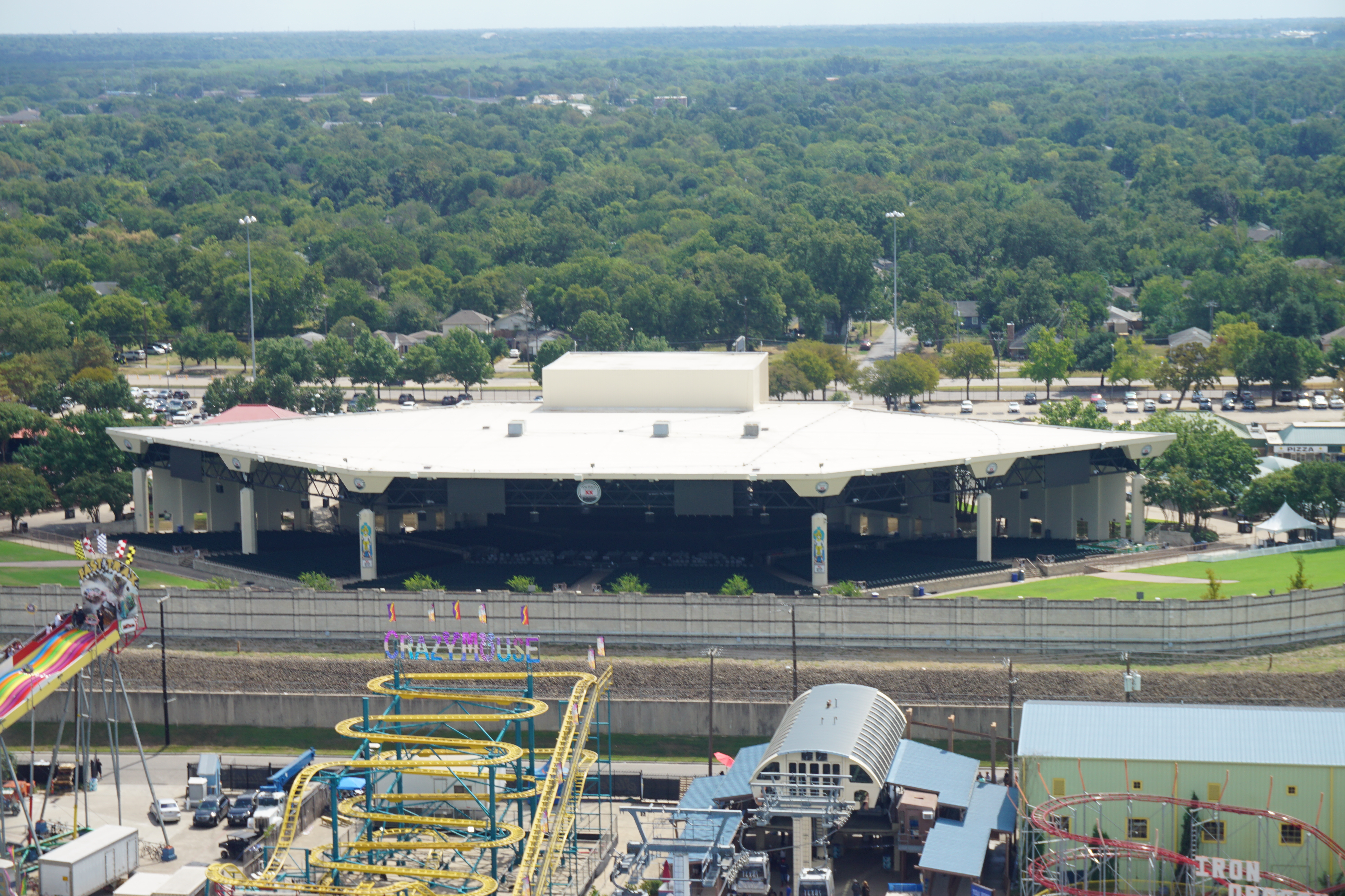 The Dos Equis Pavilion as viewed from Texas Star at the State Fair of Texas in Dallas, Texas (United States).